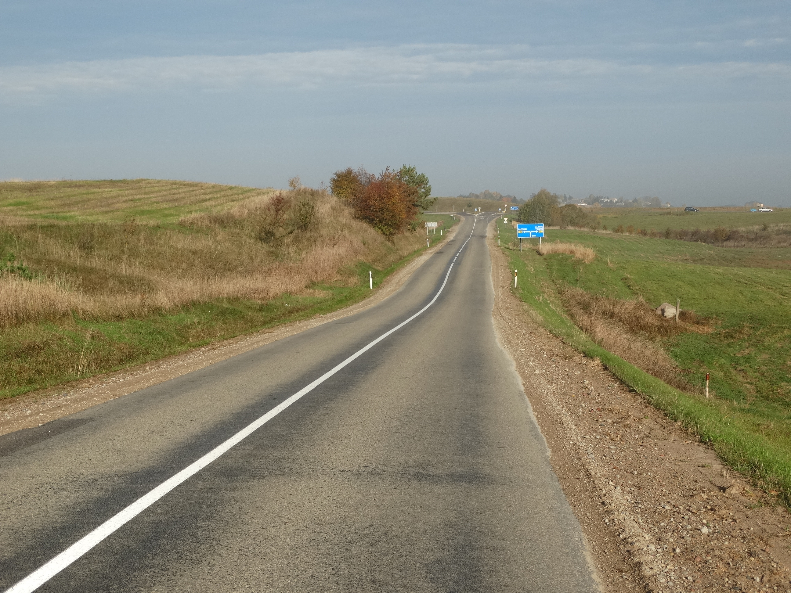 Road 180 by Seirijai, Lithuania